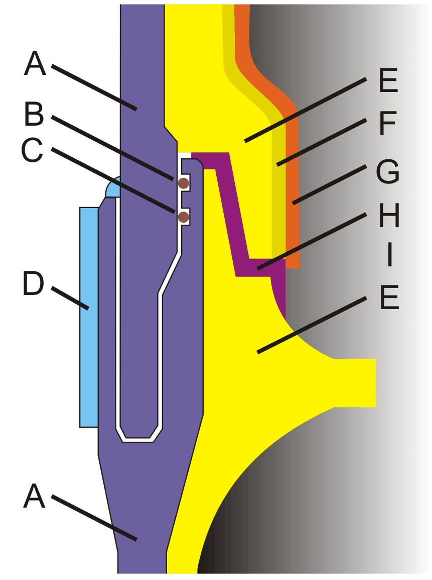 A diagram showing a simplified cross-section of the field joints between the segments of the pre-Challenger Space Shuttle Solid Rocket Boosters. Legend: A - steel wall thickness 12.7 mm B - base O-ring gasket C - backup O-ring gasket D - Strengthening-Cover band E - insulation F - insulation G - carpeting H - sealing paste I - fixed propellant